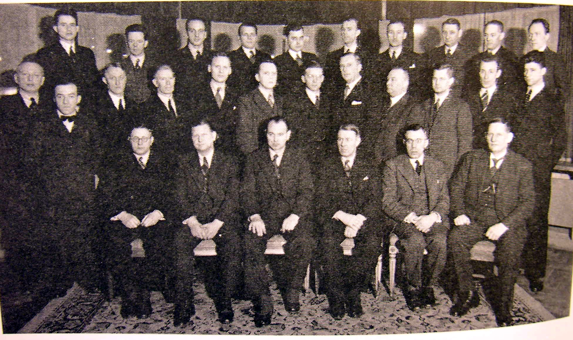 NITO 1936